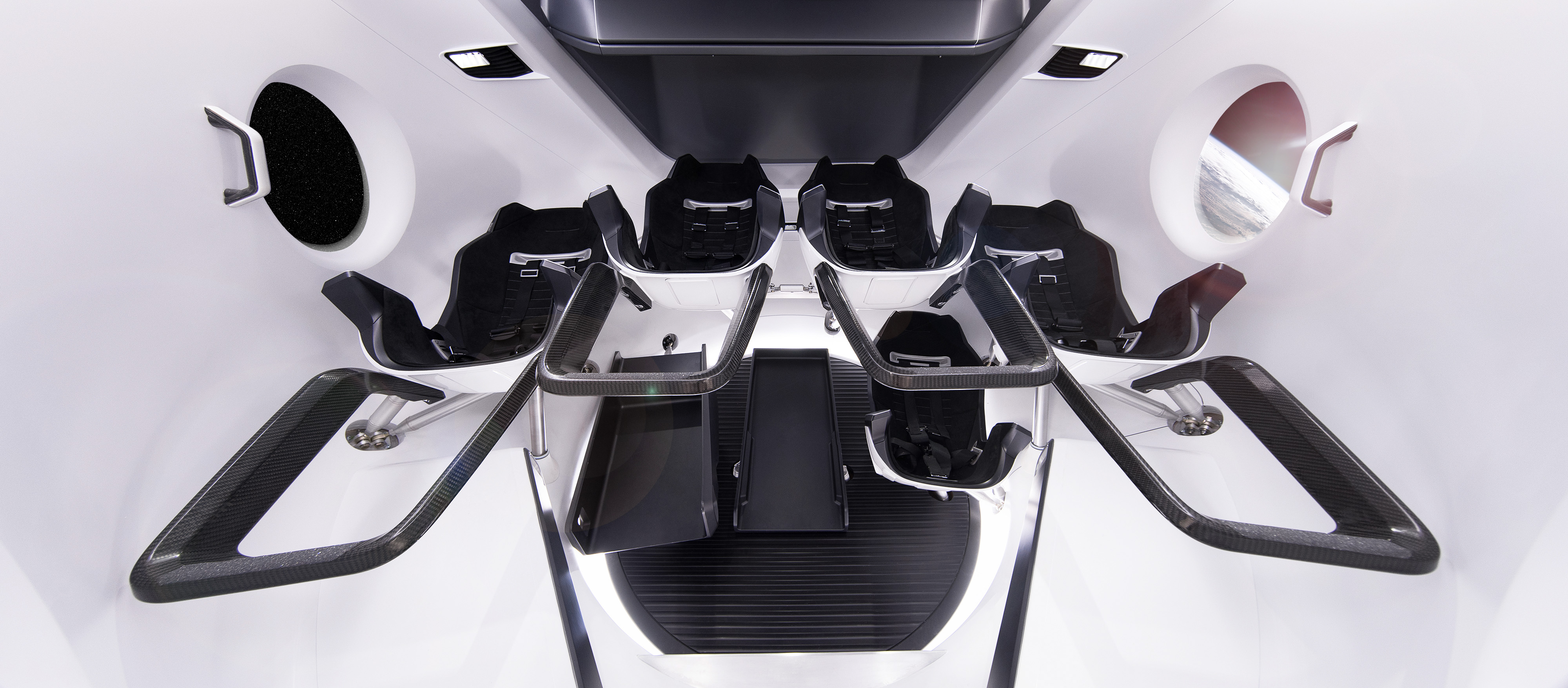 Step inside Crew Dragon, our next-generation spacecraft designed to carry humans to the International Space Station and other destinations. Crew Dragon can carry up to seven astronauts, or a combination of astronauts and crew. The configuration seen here has five seats and two cargo racks. Learn more →